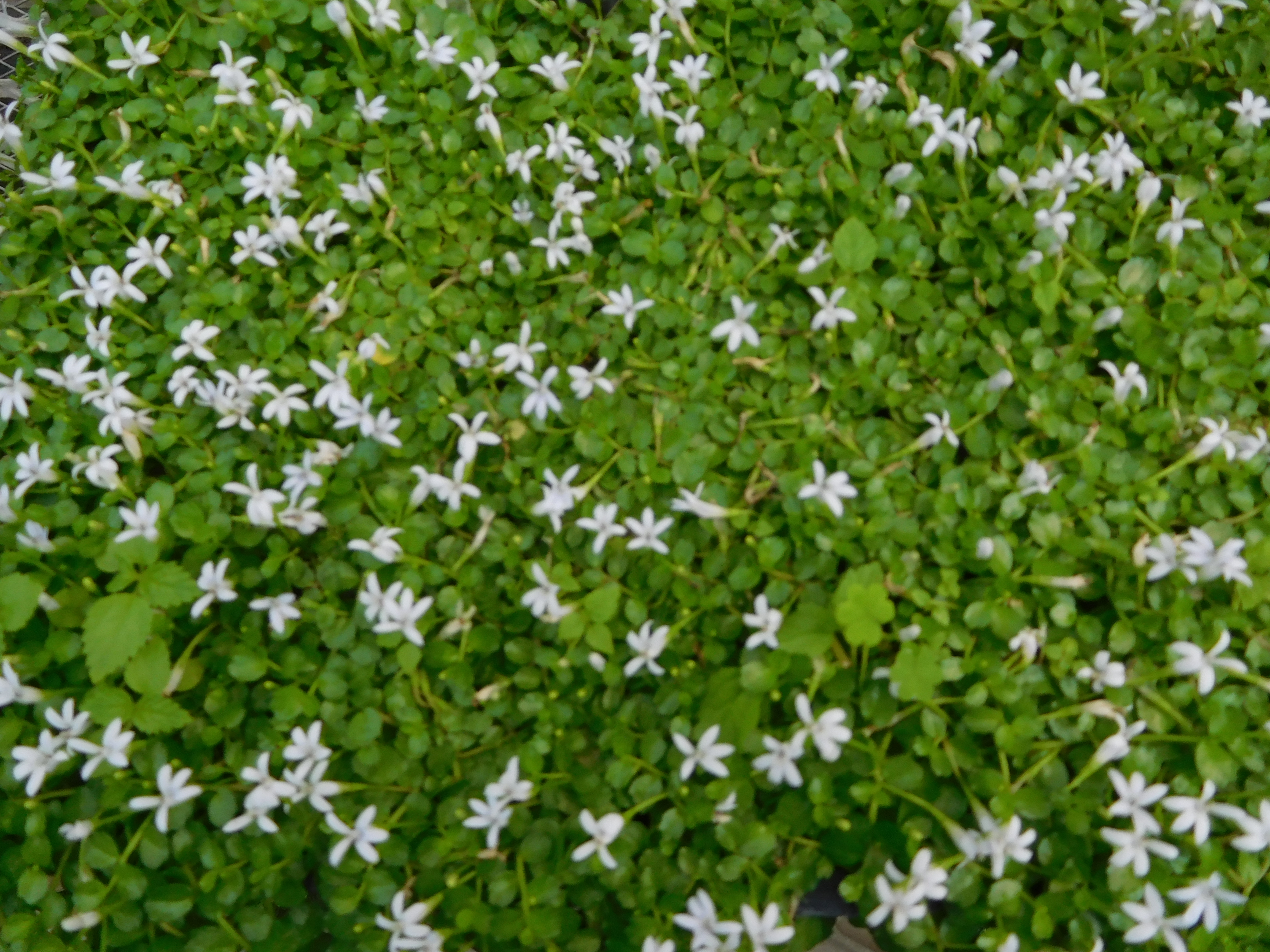 This is Lobelia loochooensis in Tsukuba Botanical Garden, Tsukuba, Ibaraki, Japan.